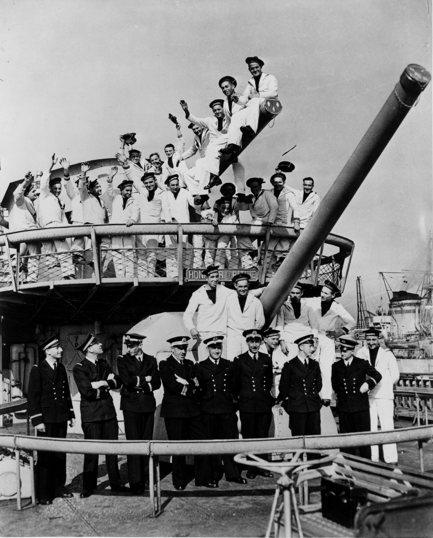 The Free French destroyer Le Fantasque arrives for a refit at the Boston Navy Yard, Massachusetts (USA), circa in February 1943.